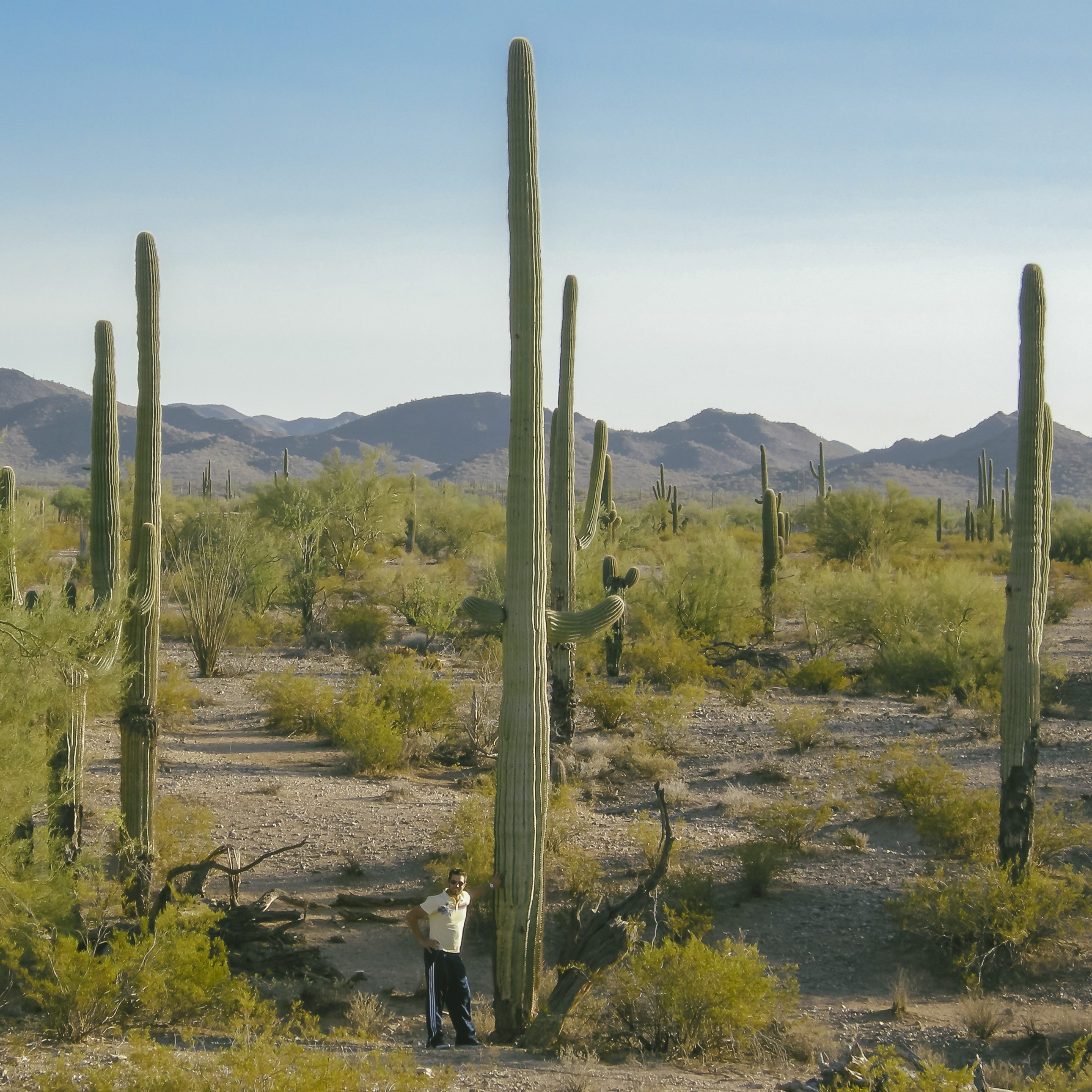 A large cactus (Carnegiea gigantea) with a human next to it for scale at Saguaro National Park